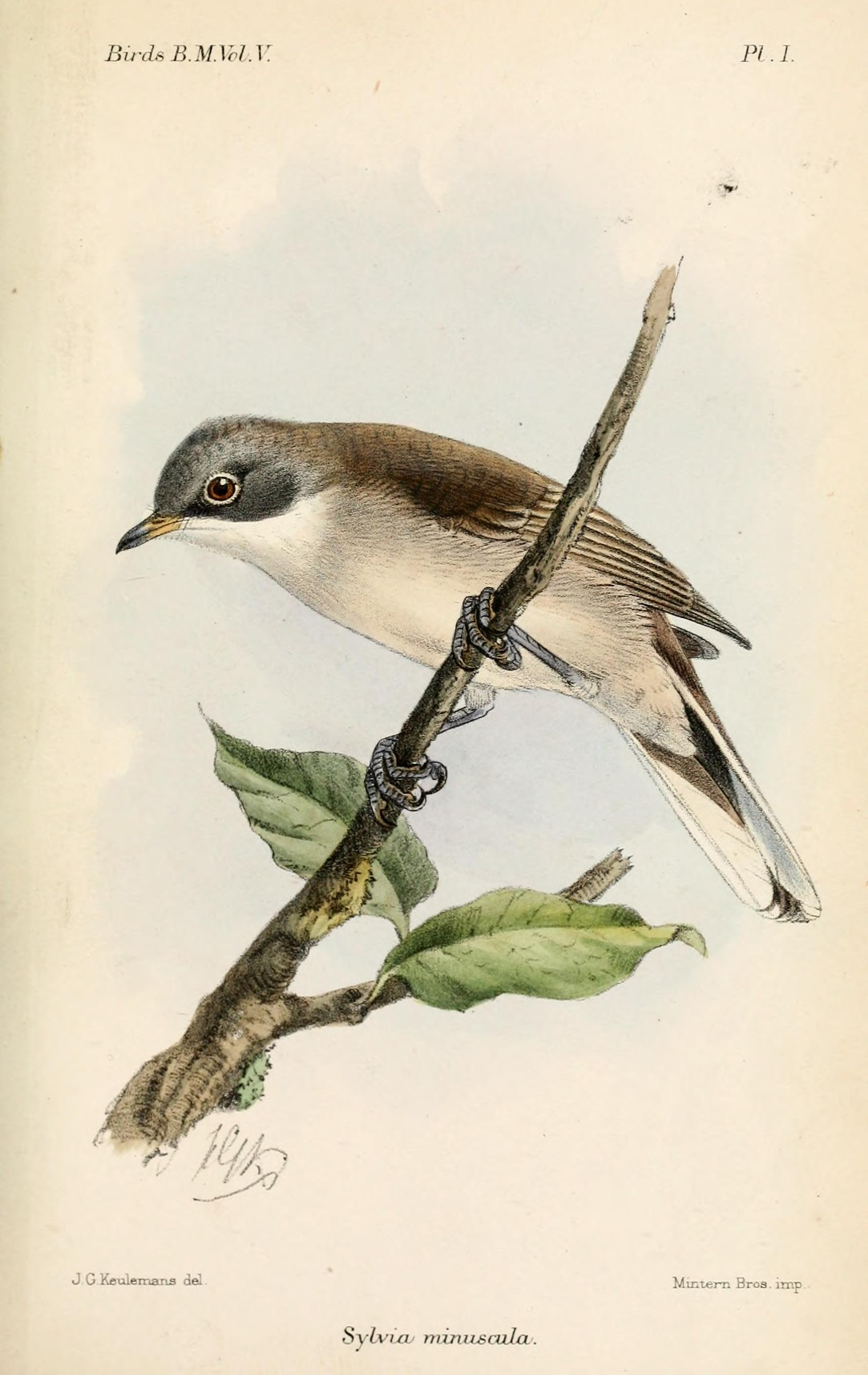 Desert Whitethroat